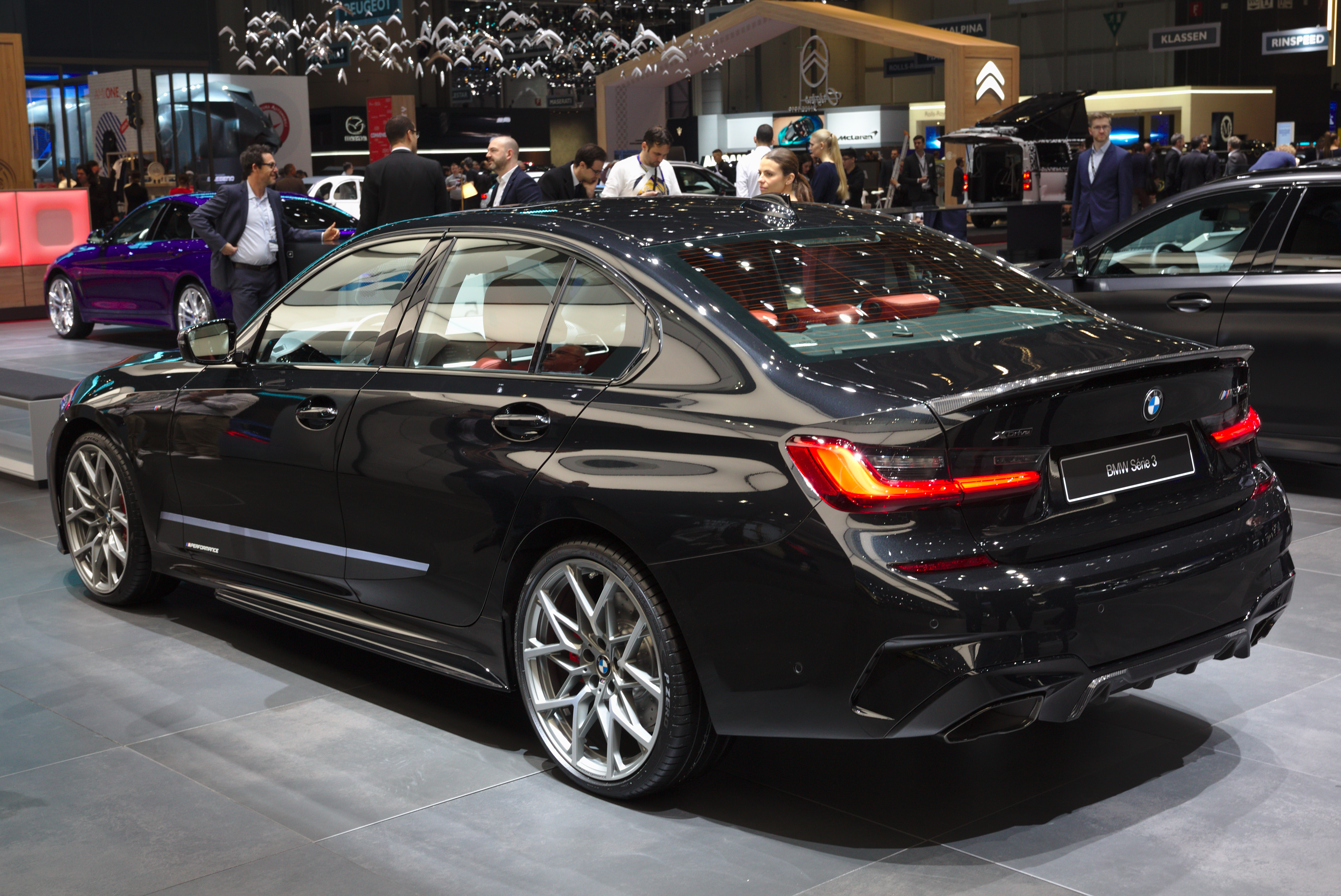 BMW M340i at Geneva Motor Show 2019